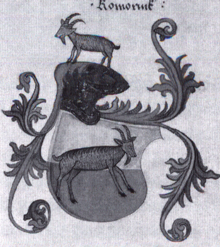 Coat of arms of Jindřich Donát z Velké Polomi a na Nové Cerekvi from Zemské desky of Duchy of Opava.